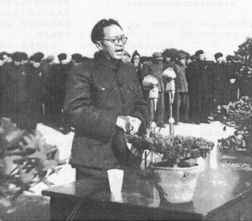 黄克诚将军